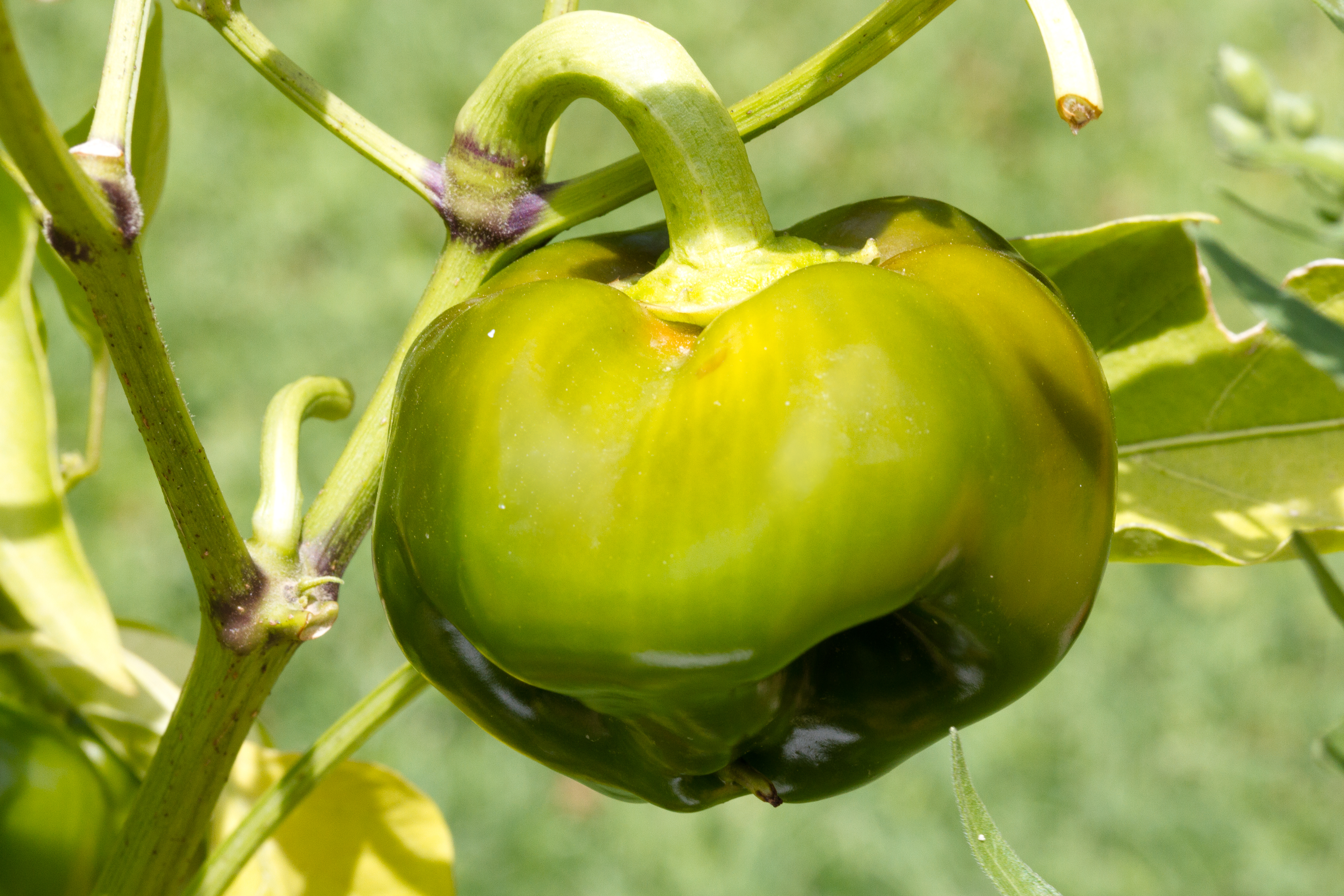 The Petit carré de Nice is a bell pepper from southeastern France.